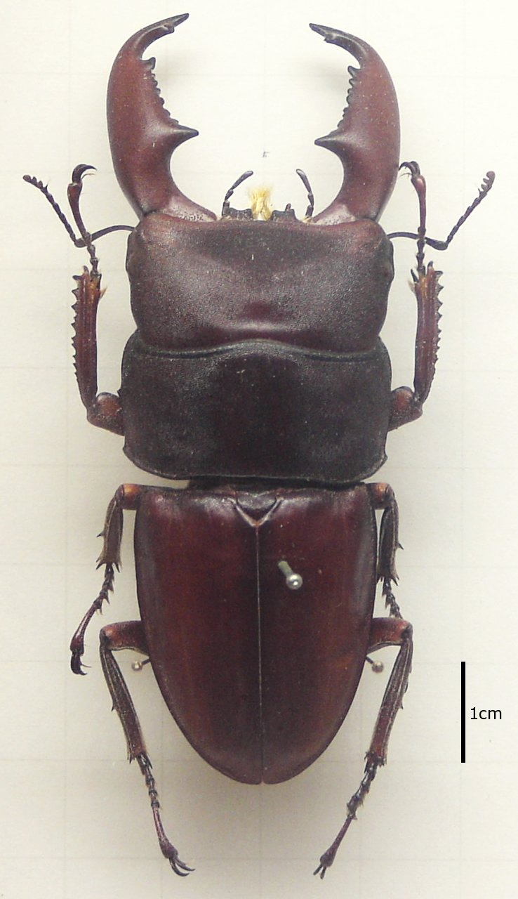 Eurytrachelus titanus (Lucanidae), mounted specimen from Celebes.